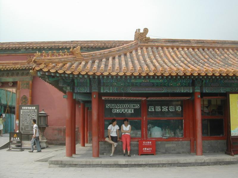 Starbucks inside the Forbidden City in Beijing, China Photo by Eugene Suprun